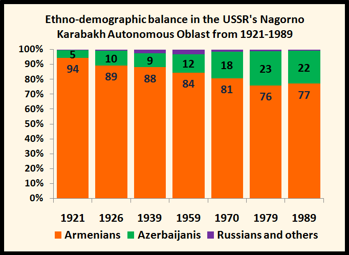 Ethno-demographic balance data for the USSR's Nagorno Karabakh Autonomous Region from 1921 to 1989. Source: Soviet census data; Сельскохозяйственная перепись Азербайджана 1921 г. in: "Известия Аз. ЦСУ", 1923, № 1 (7), с. 106-111) and М. Авдеева. "Численность и племенной состав сельского населения Азербайджана по данным переписи 1921 г.